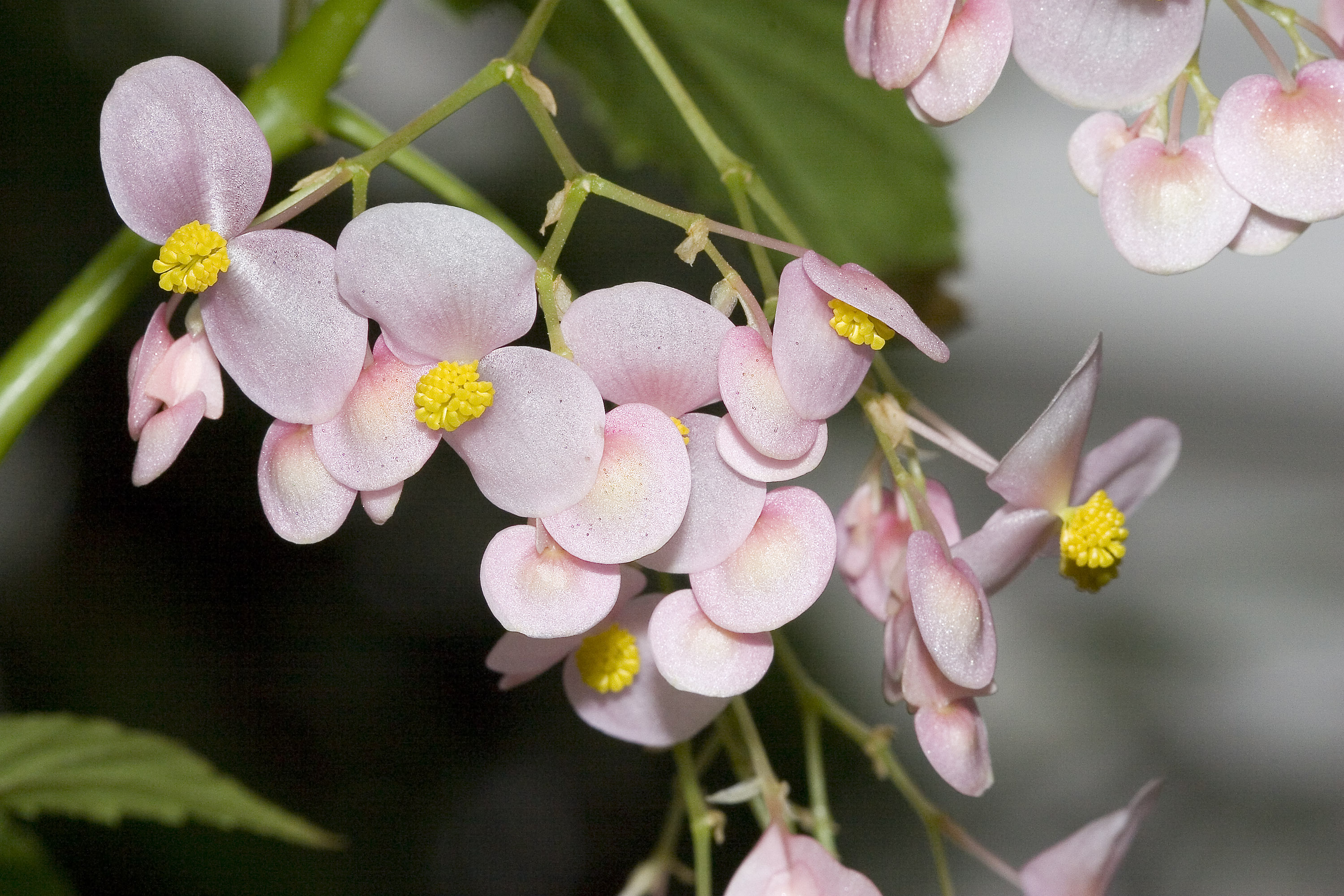 Begonia naumoniensis